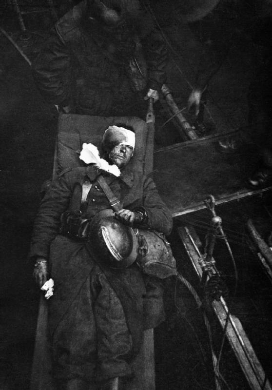 A wounded French soldier being taken ashore on a stretcher at Dover.